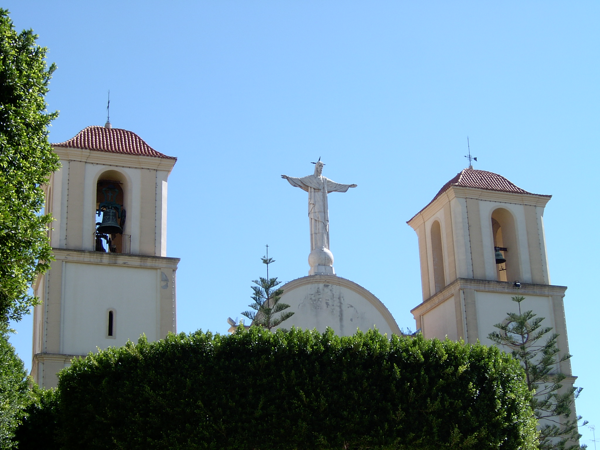 Saint Andrew's Church, Almoradí